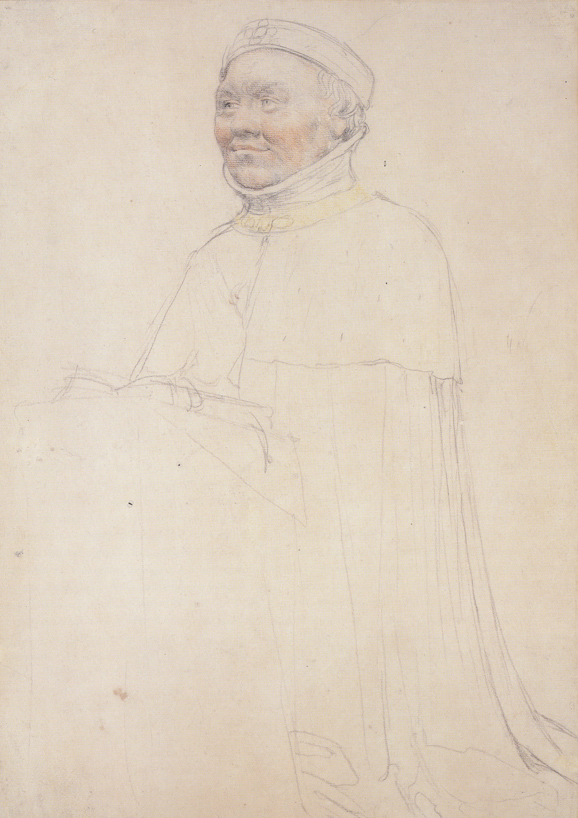 Jean de France, Duke of Berry, study of a sculpture by Jean de Cambrai. Black and coloured chalk, 39.6 × 27.5 cm, Kunstmuseum Basel. Holbein drew this picture and its companion piece, Jeanne de Boulogne, Duchess of Berry, during a visit to France in 1523/24, where he was probably seeking work with Francis I of France. The two sculptures drawn by Holbein were life-sized limestone effigies of Jean, Duke of Berry (1340–1416), and his second wife, Jeanne de Boulogne (1396–1422). At that time, the sculptures were in the chapel of the duke's palace in Bourges; they are now in Bourges Cathedral. Holbein's drawings were used as guides during a restoration of the statues, when 19th-century additions were removed. The two drawings are significant for Holbein scholars in providing direct evidence of the artist's visit to France and as the first example of his exclusive use of coloured chalks. He may have adopted the technique after seeing the drawings of Jean Clouet and other artists of the French school. However, he had already used chalks in his silverpoint drawings, and the technique was not unknown in Augsburg and Basel, where he practised his art. (Müller, 316–17).